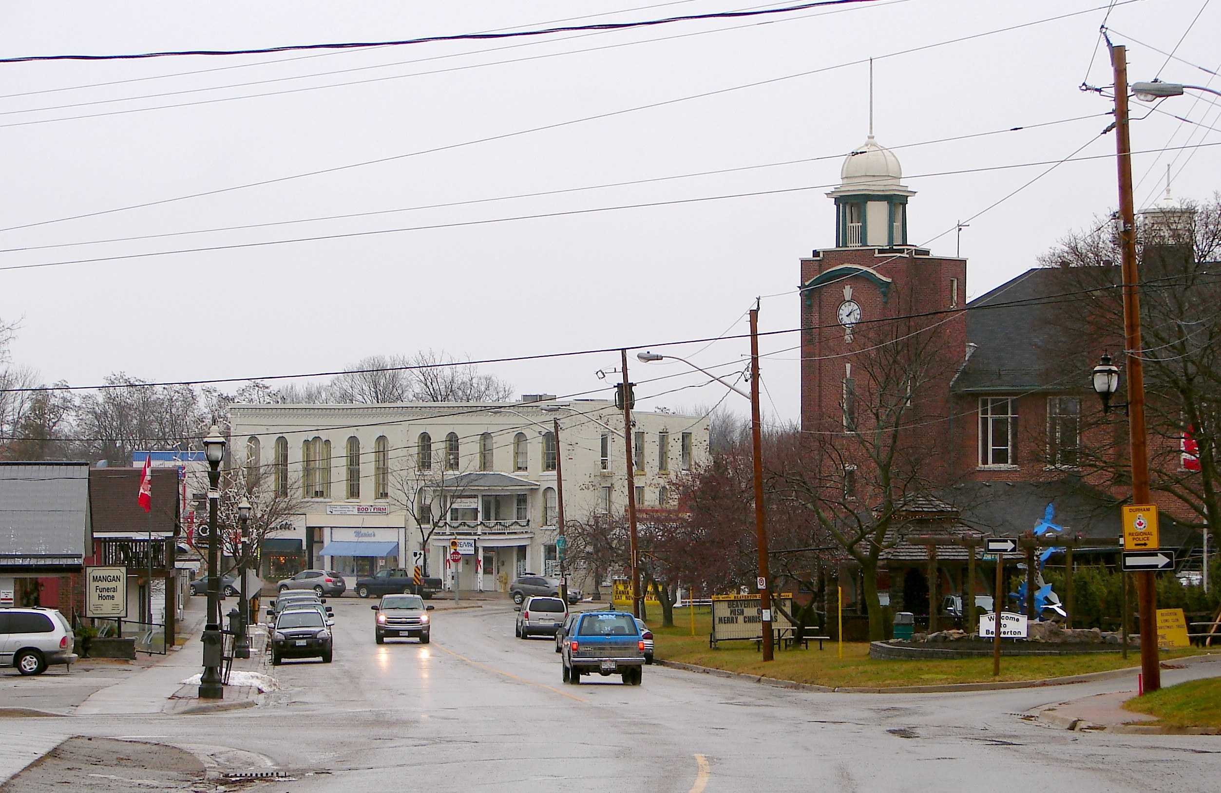 Beaverton (Brock Township), Ontario, Canada